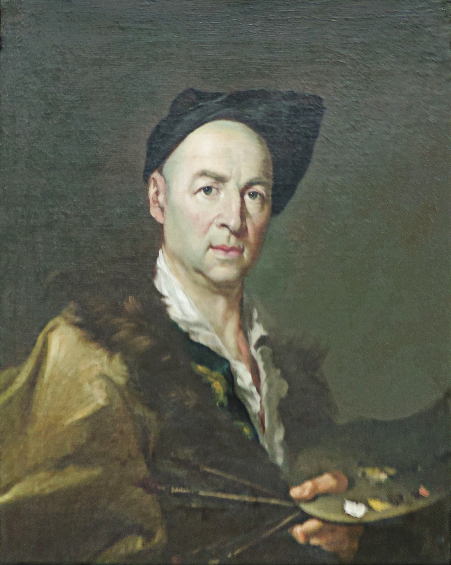 Self-portrait of the Italian painter Giacomo Ceruti (1698 –1767)